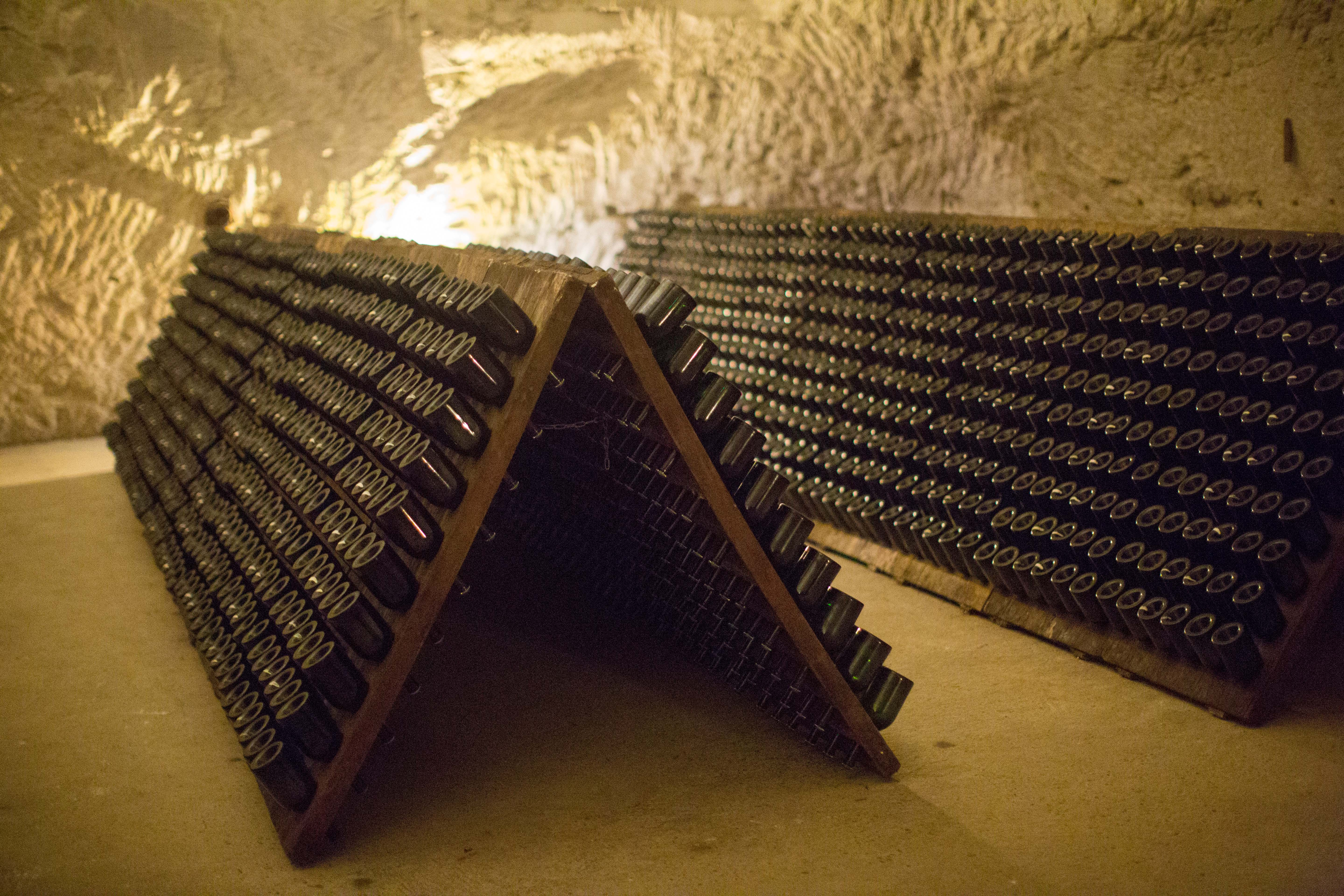 Tattinger caves